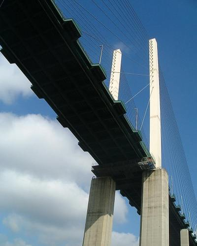 Queen Elizabeth II Bridge. Taken whilst passing under QE2 Bridge whilst sailing up to London